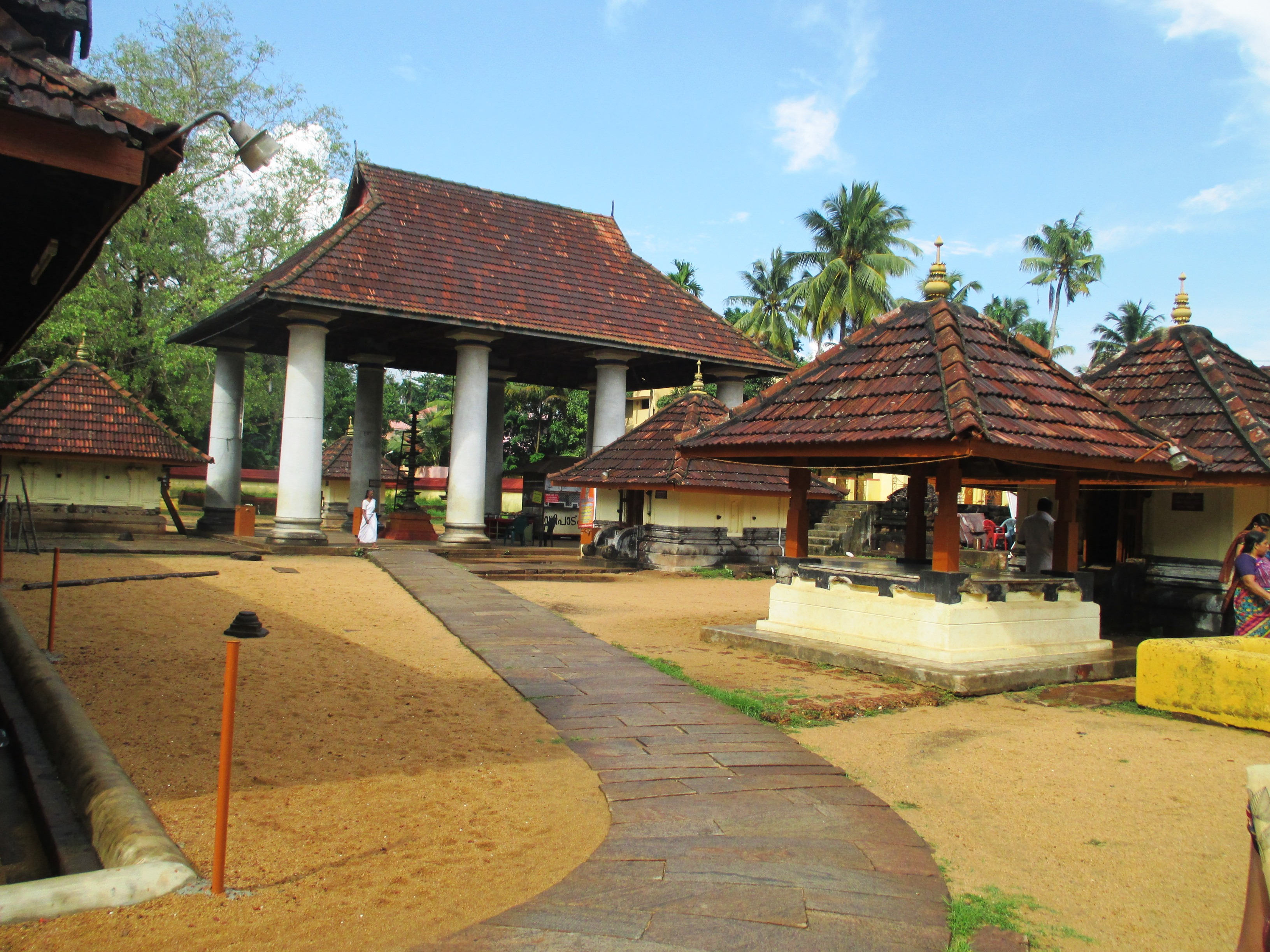 Thiruvanchikkulam Sivatemple